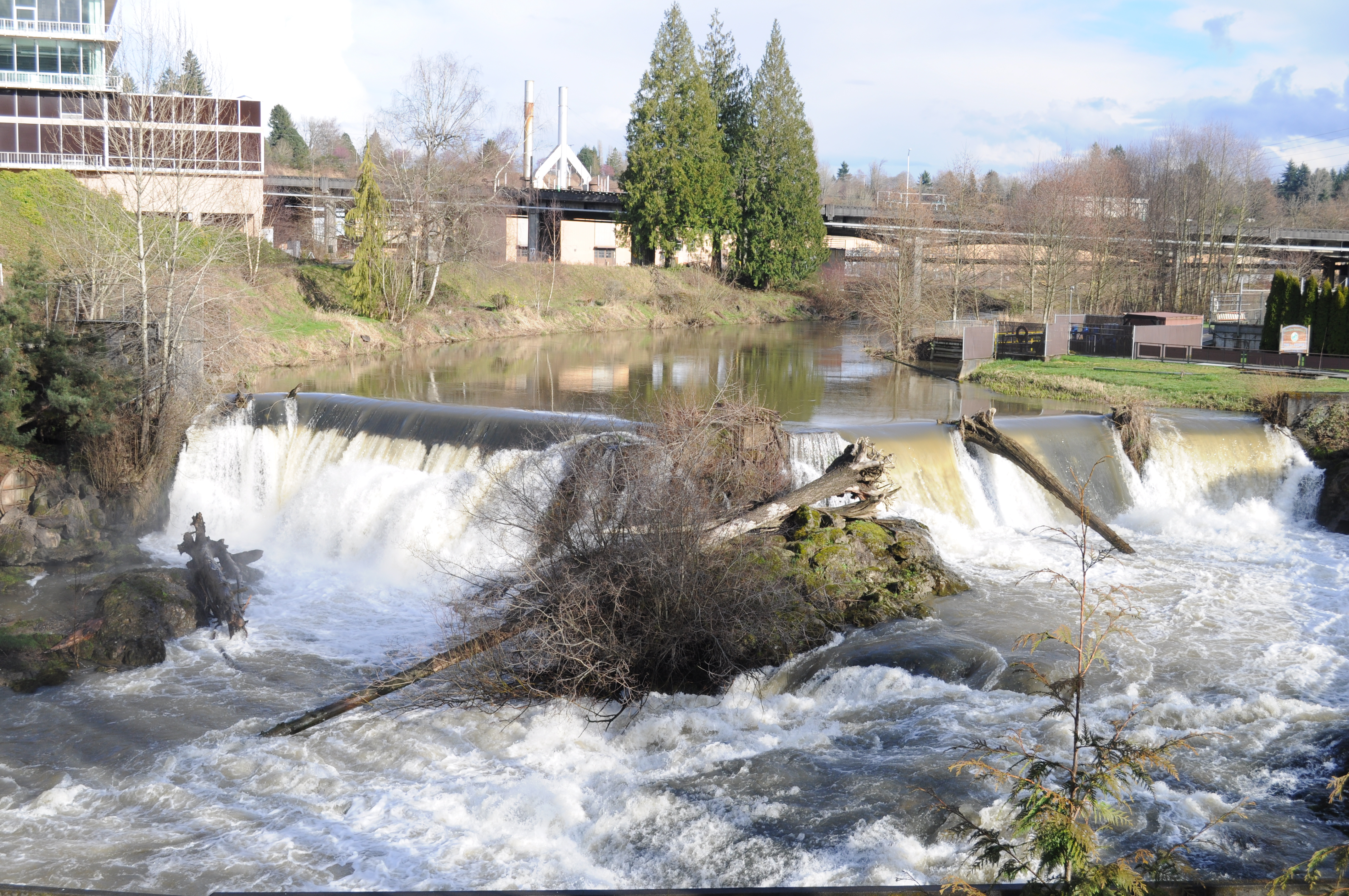 Upper Tumwater Falls, Tumwater, Washington. Capital Boulevard Crossing in background.